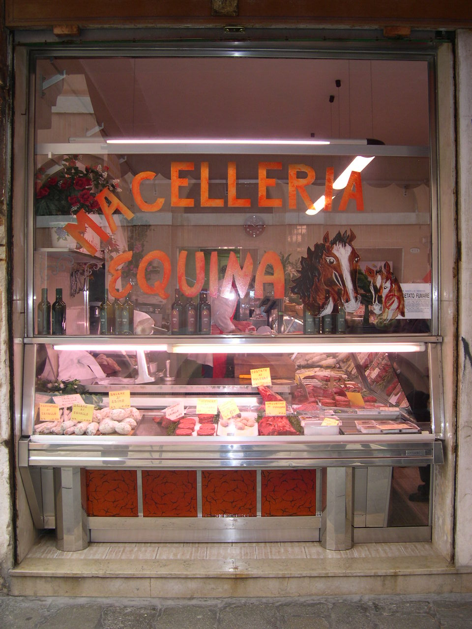 Horse meat butcher near Rialto in Venice.